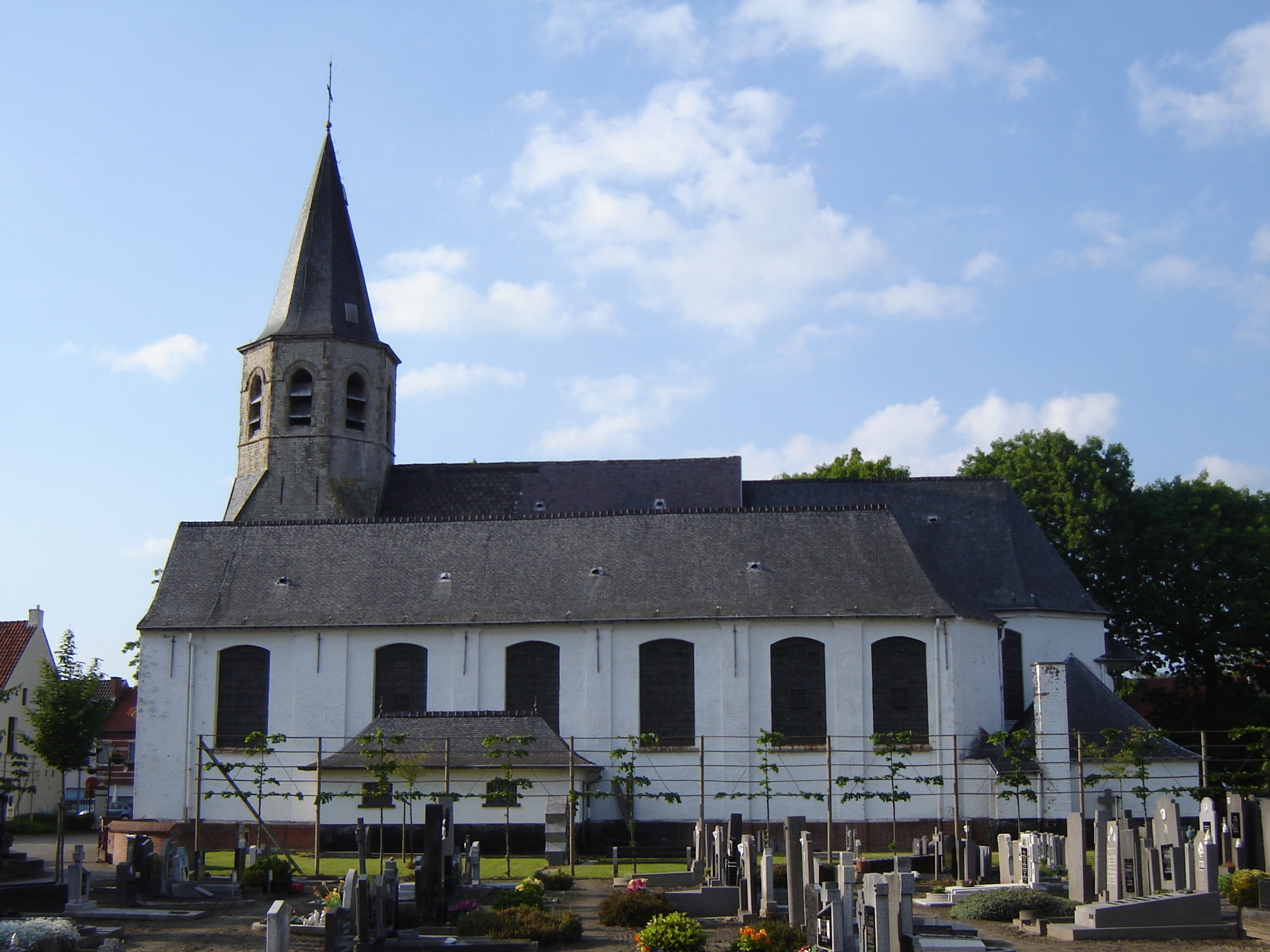 Church of Saint Eligius in Zeveneken. Zeveneken, Lochristi, East Flanders, Belgium